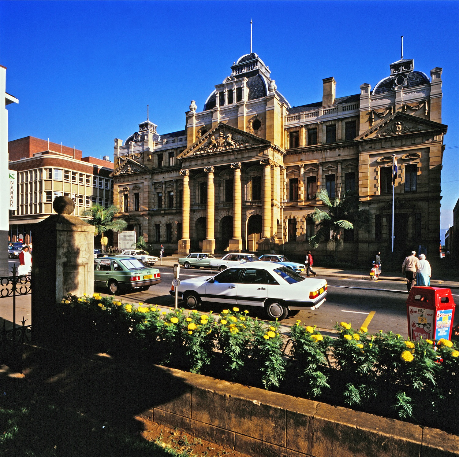 This media shows a South African Protected Site with SAHRA file reference 9/2/436/0011.